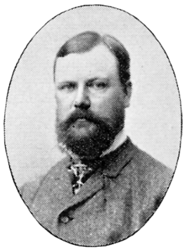 Image scanned from the book "Svenskt Porträttgalleri XX - Arkitekter, Bildhuggare, Målare m.fl. " ("Swedish Portrait Gallery XX - Architects, Sculptors, Painters, ") published 1901